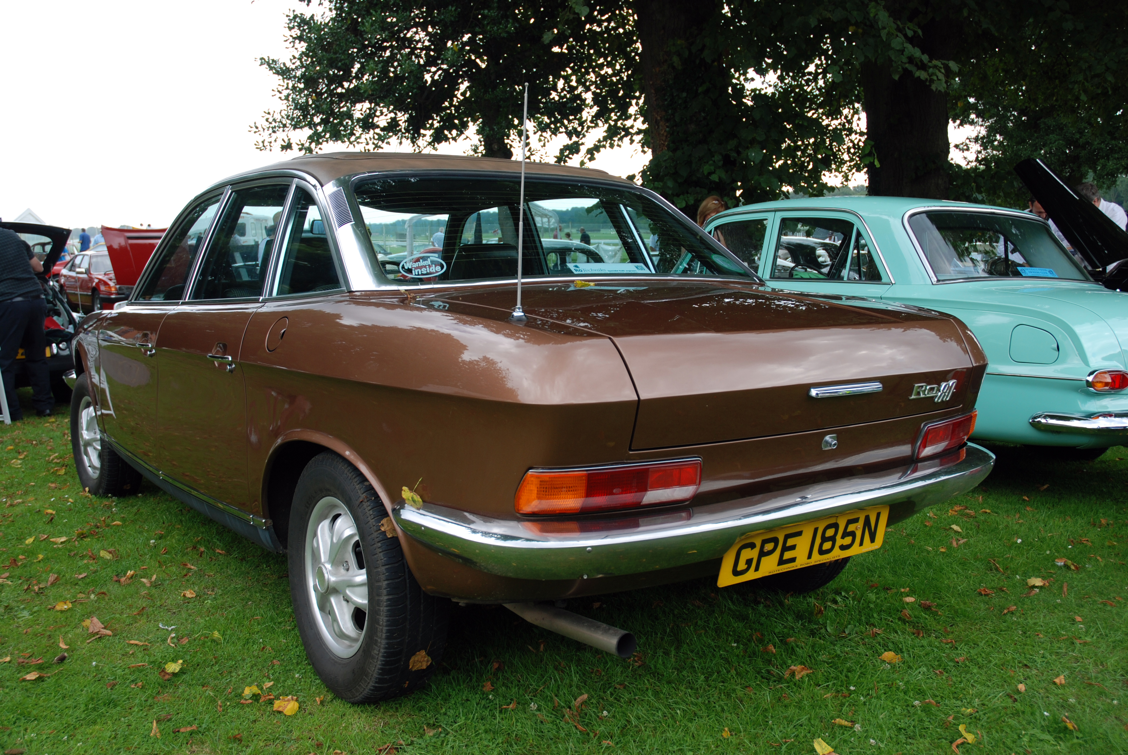 Newbury,Aug 2009